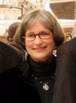 Liz White, Leader of the Animal Alliance Environment Voters Party of Canada